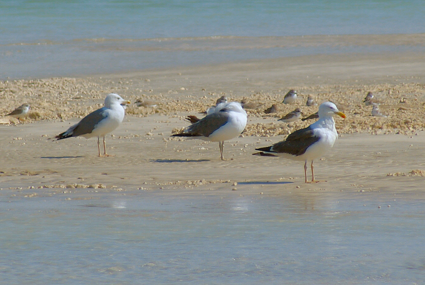 Lesser Black-backed Gull (?) on Al Reem Island.